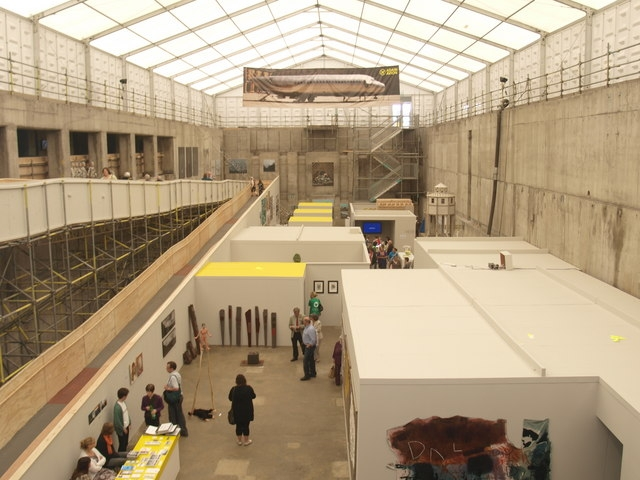 Y Lle Celf means "the Arts' place" and was converted from the stack annealer basement of the former steelworks for the Blaenau Gwent and Heads of the Valleys Eisteddfod 2010. It was claimed to be the biggest underground arts exhibition in the world.